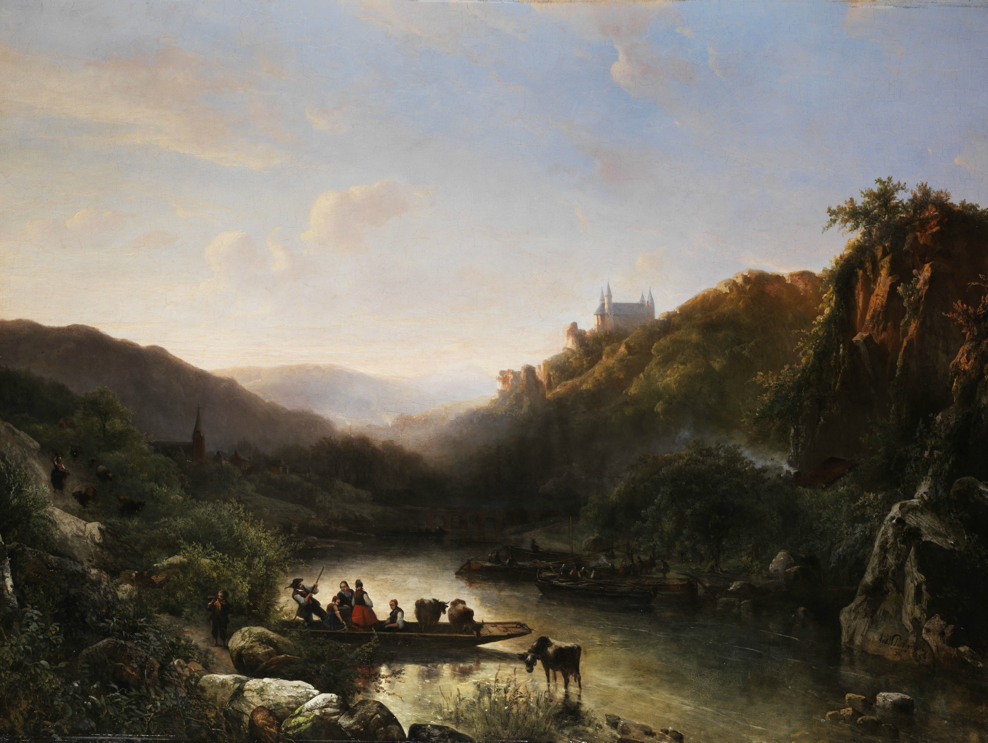 Mountainous riverscape with Romanesque church. Oil on mahogany (93 x 123 cm).